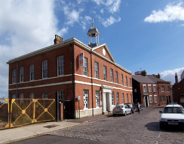 Old Dock Office. The former Dock Office on Dock Office Row. Built c1820 adjacent to the entry lock to Queen's Dock 242585. Now a Student Union Building.